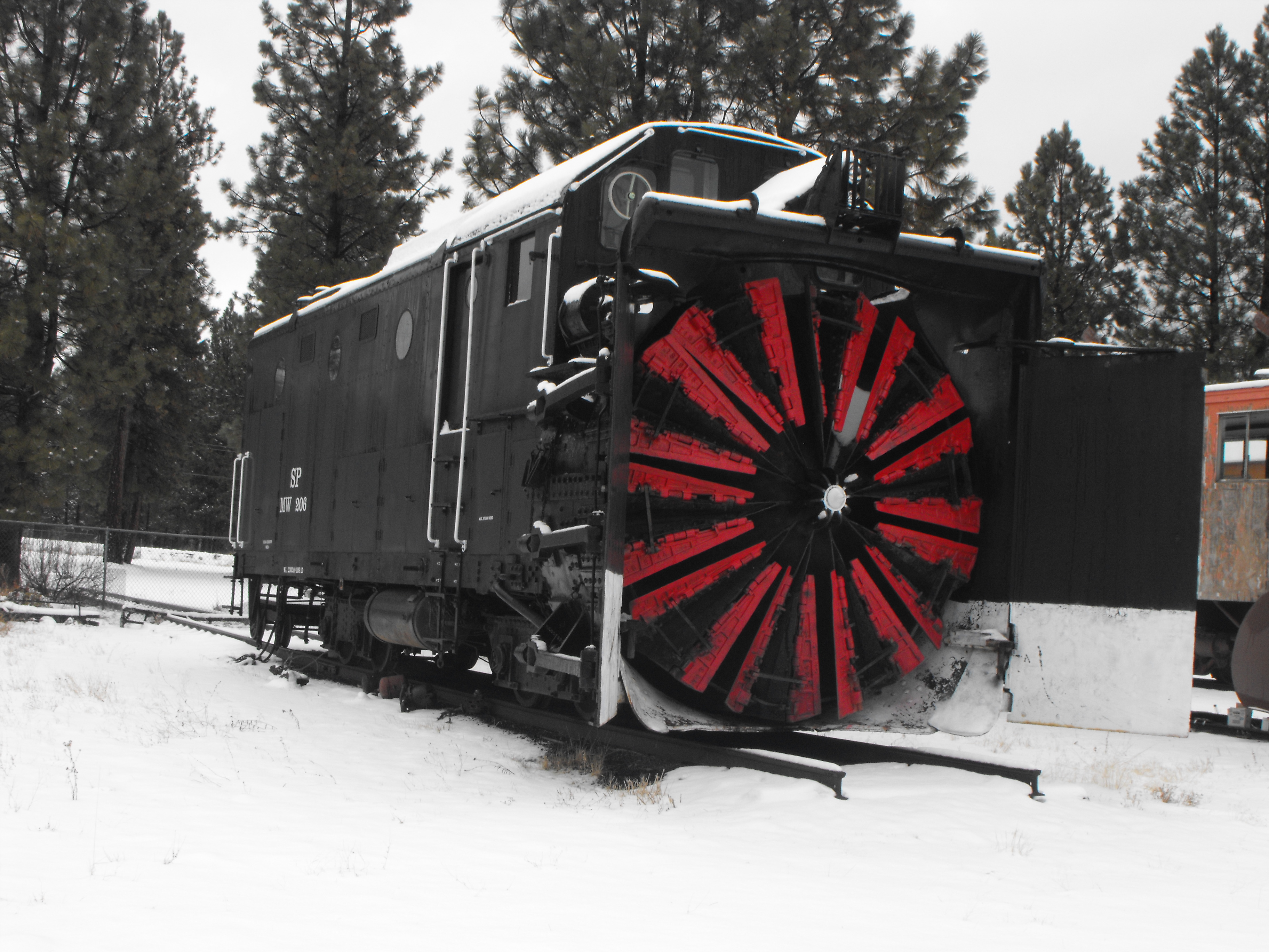 Antique Rotary Snow Blower SP MW206, Built by ALCo (Cooke), 11/1923, #65353, presently on display at Train Mountain in Chiloquin, Oregon.